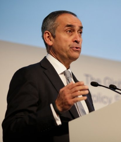 Lord Darzi Speaking at the Global Health Policy Summit in 2012